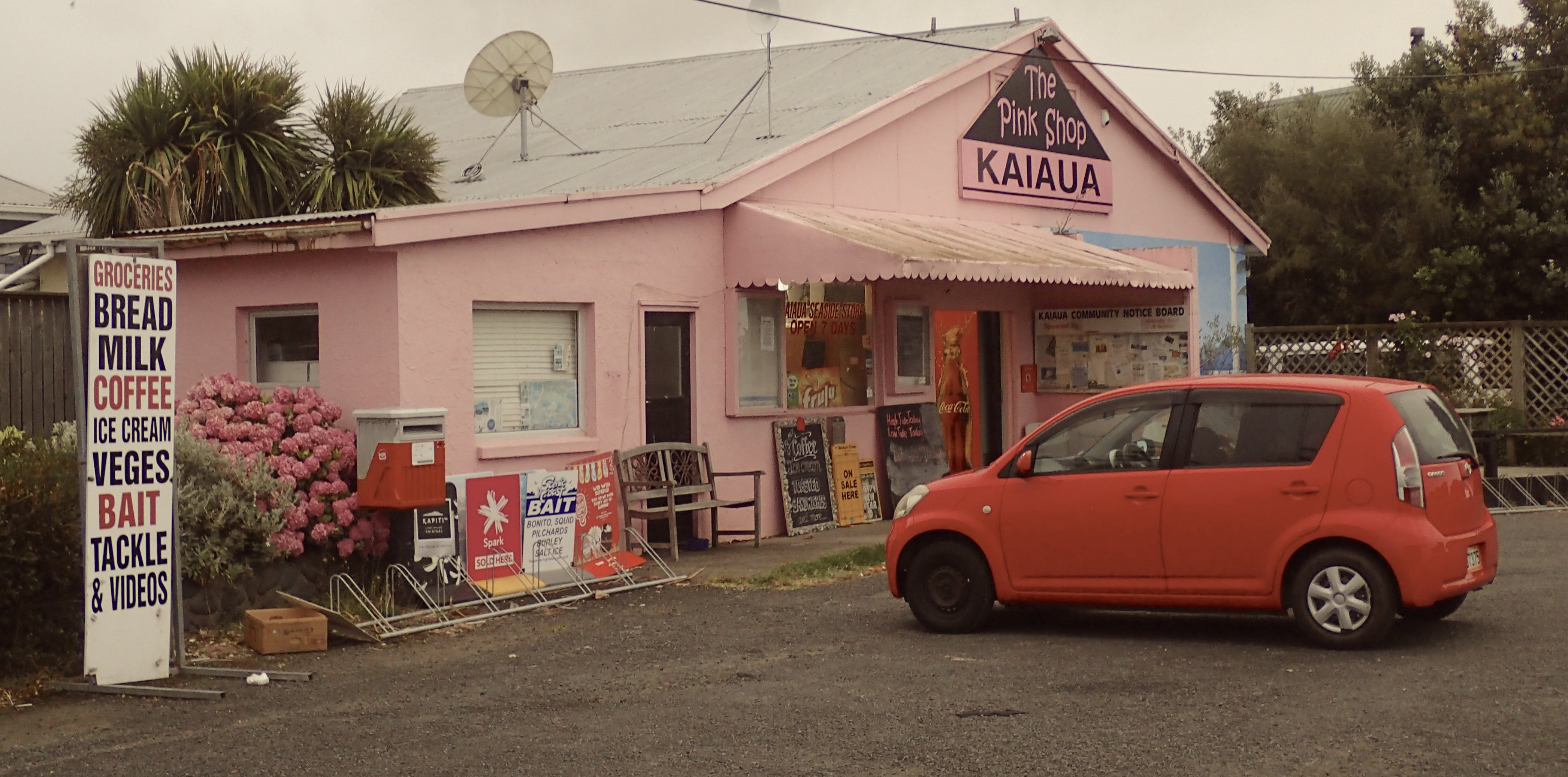 The Pink Shop, at Kaiaua, New Zealand